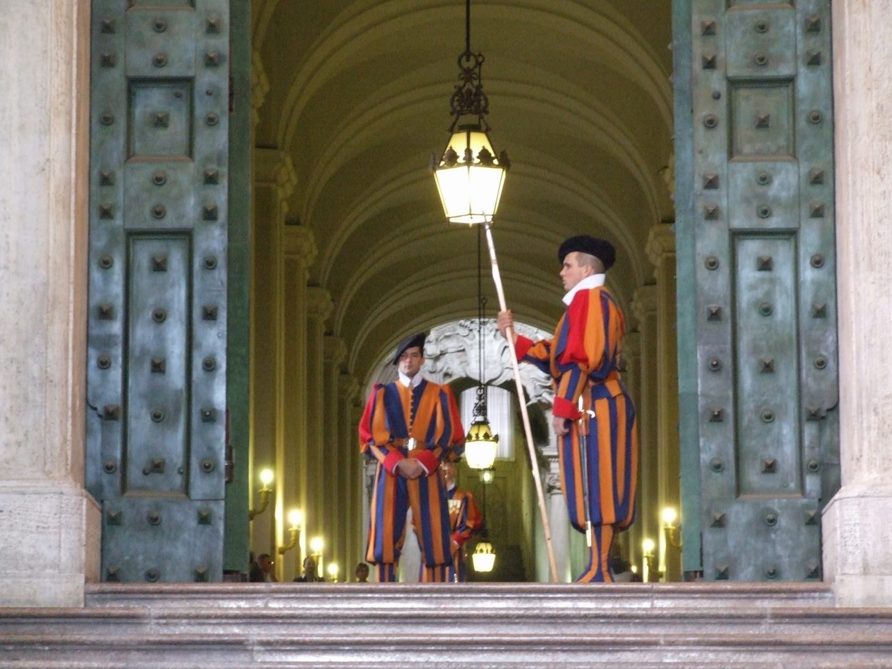 Swiss Guards at the Portone di Bronzo